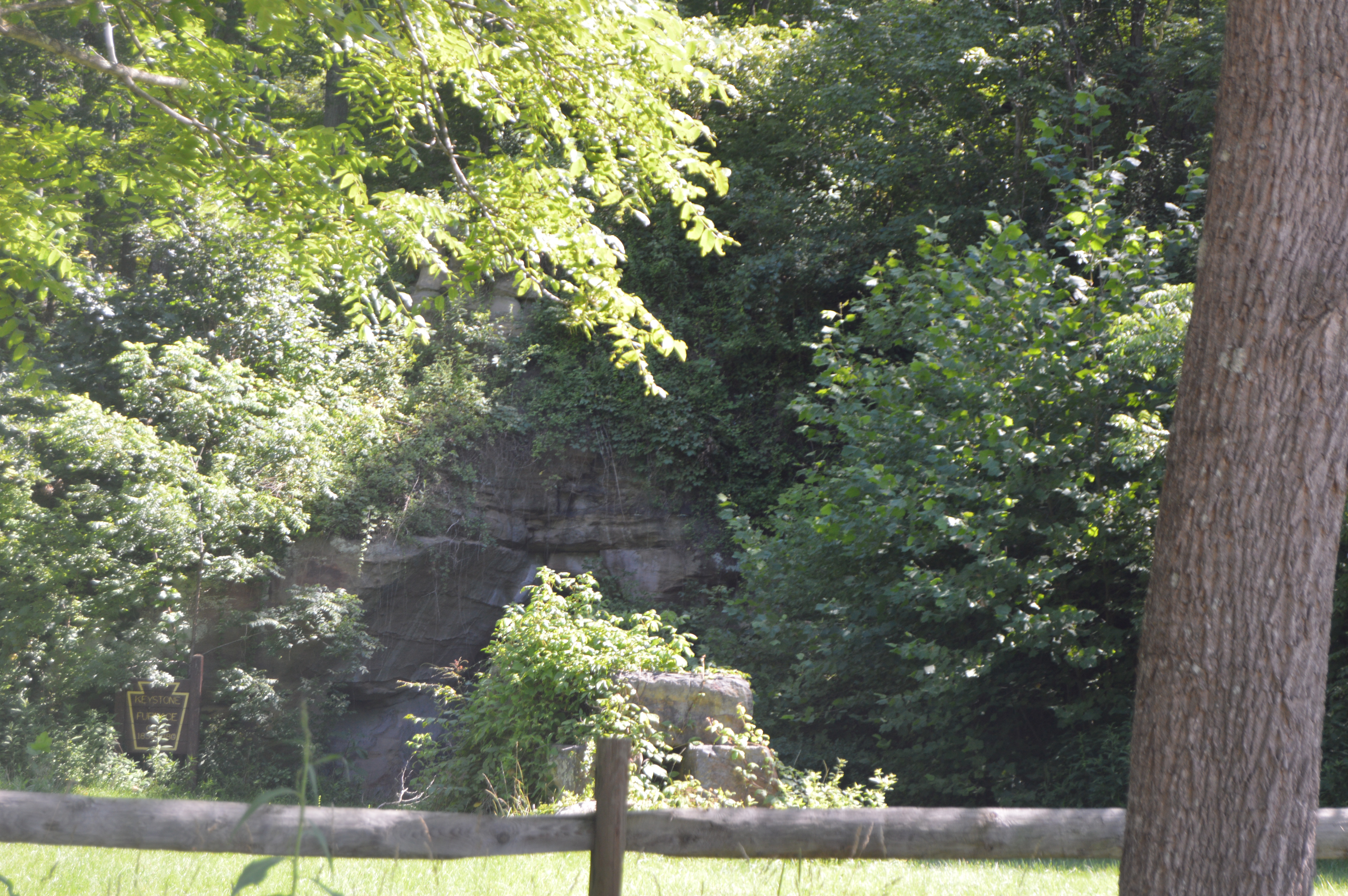 Roadside view of Keystone Furnace, located along Keystone Furnace Road in far eastern Bloomfield Township, Jackson County, Ohio, United States. Built in 1849, it is listed as a historic district on the National Register of Historic Places.